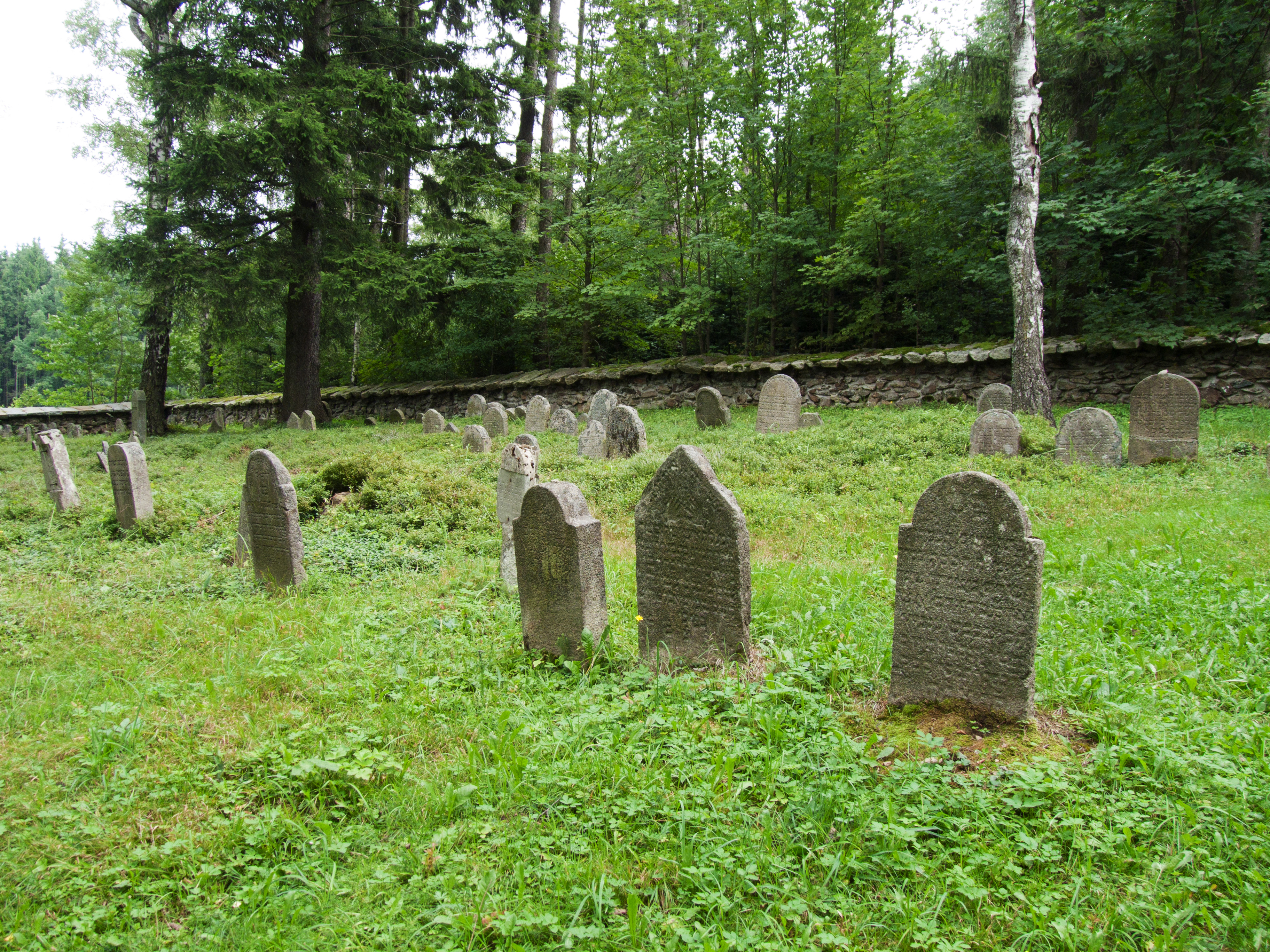 Oldest gravestones in the Jewish cemetery in the town of Kamenice nad Lipou, Pelhřimov District, Czech Republic